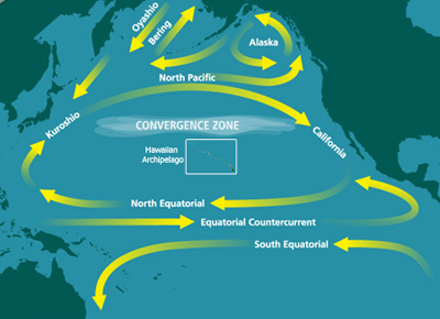 Map of the North Pacific Subtropical Convergence Zone (STCZ) within the North Pacific Gyre. Also the location of the Great Pacific Garbage Patch.